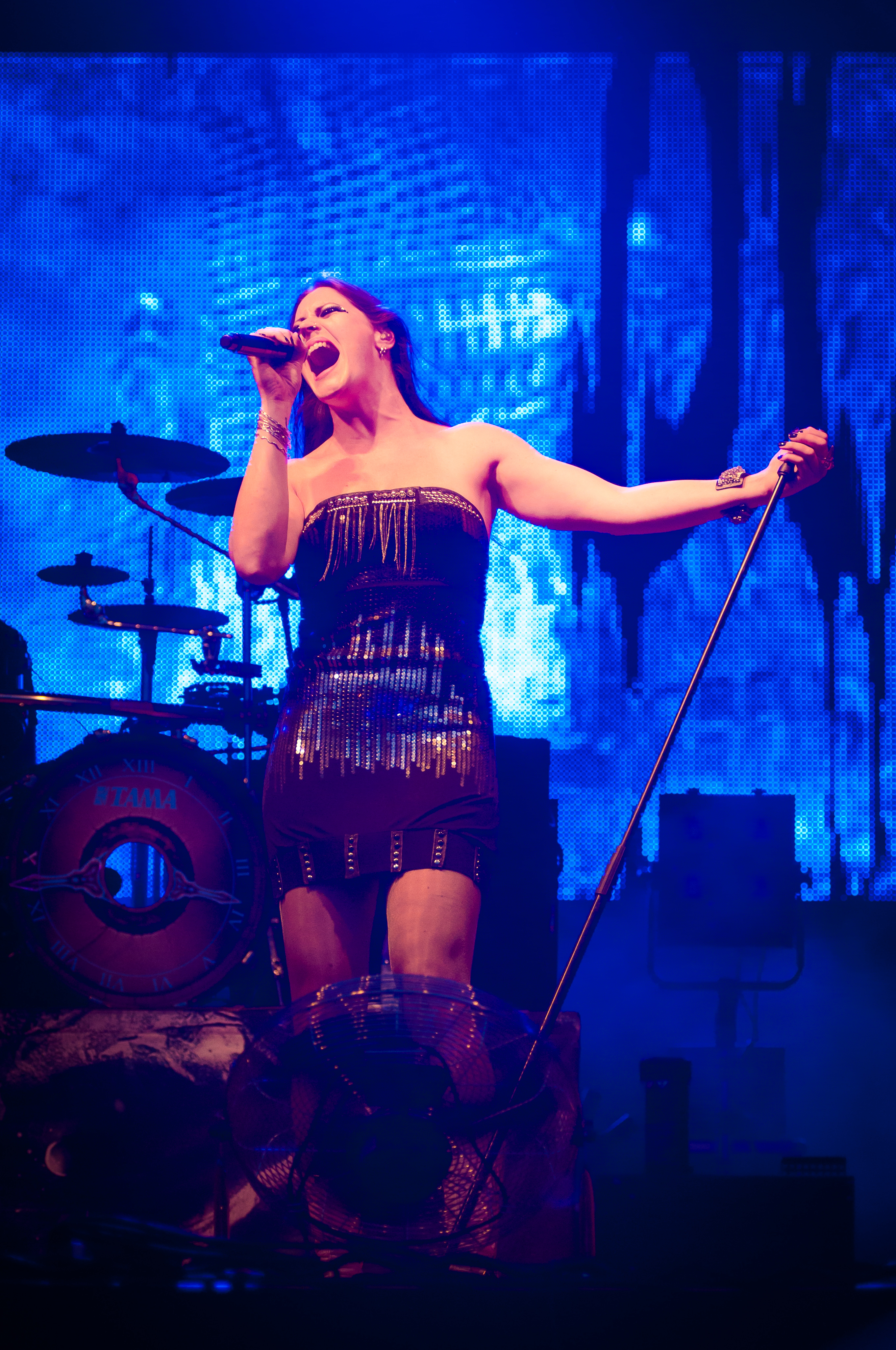 Dutch vocalist Floor Jansen of Nightwish performing at the 2013 Ilosaarirock festival in Joensuu, Finland.